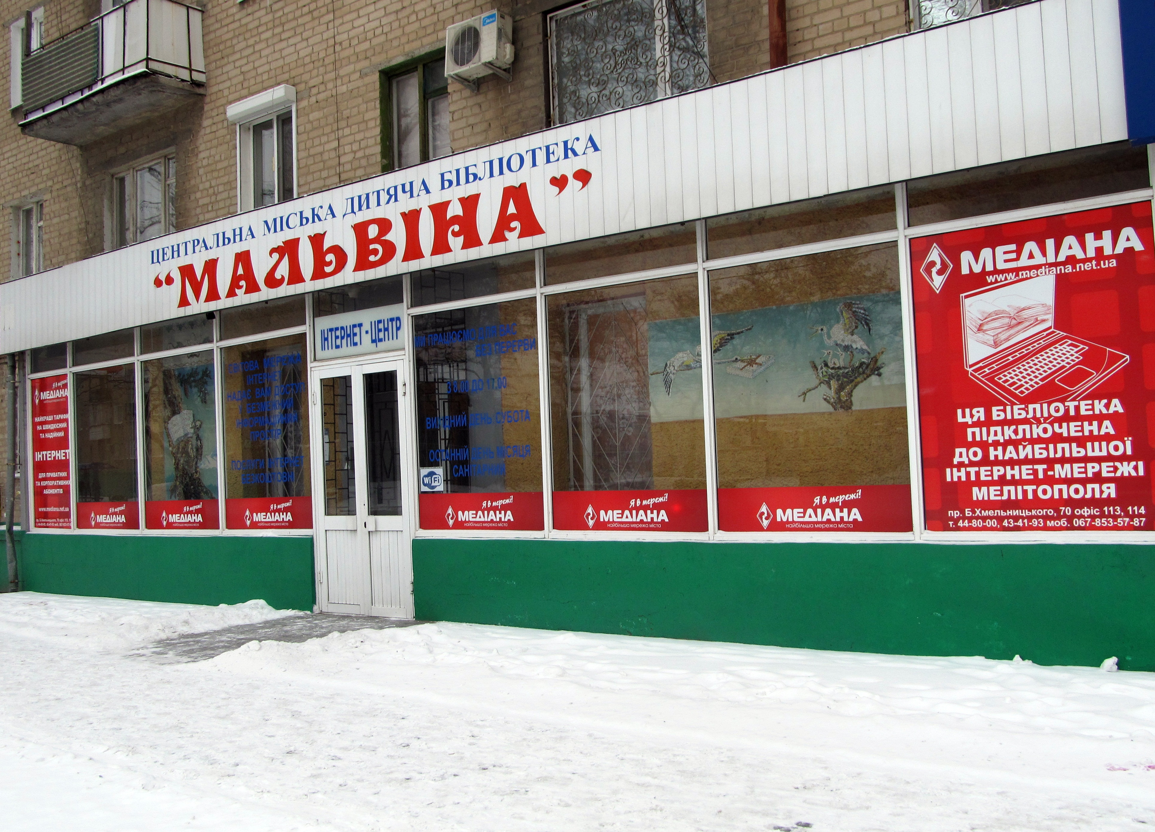 Childrens Library (Melitopol, Zaporizhia Oblast, Ukraine).